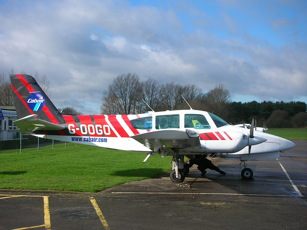 G-OOGO Cougar at Elstree on March 3, 2007.